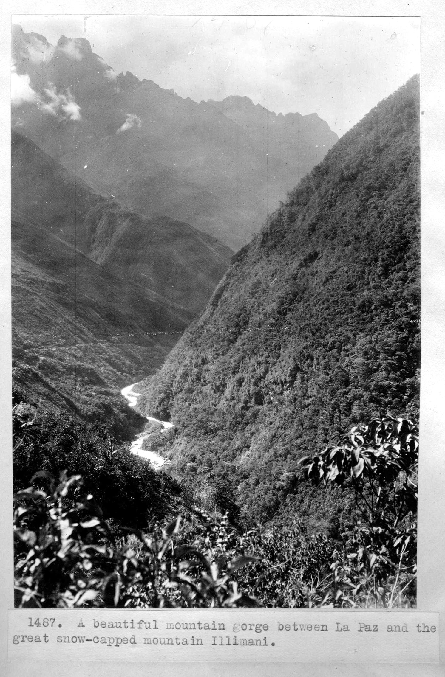 Creator: A.S. Hitchcock Type: black-and-white photograph, 6.5 x 4.5 inches Date: c.1923-1924 Local number: SIA2011-0570 Summary: A beautiful mountain gorge between La Paz, Bolivia and the great snow-capped mountain Illimani [Nevado Illimani]. Cite as: SIA RU 000229 - Smithsonian Institution Archives Repository:Smithsonian Institution Archives View more collections from the Smithsonian Institution.